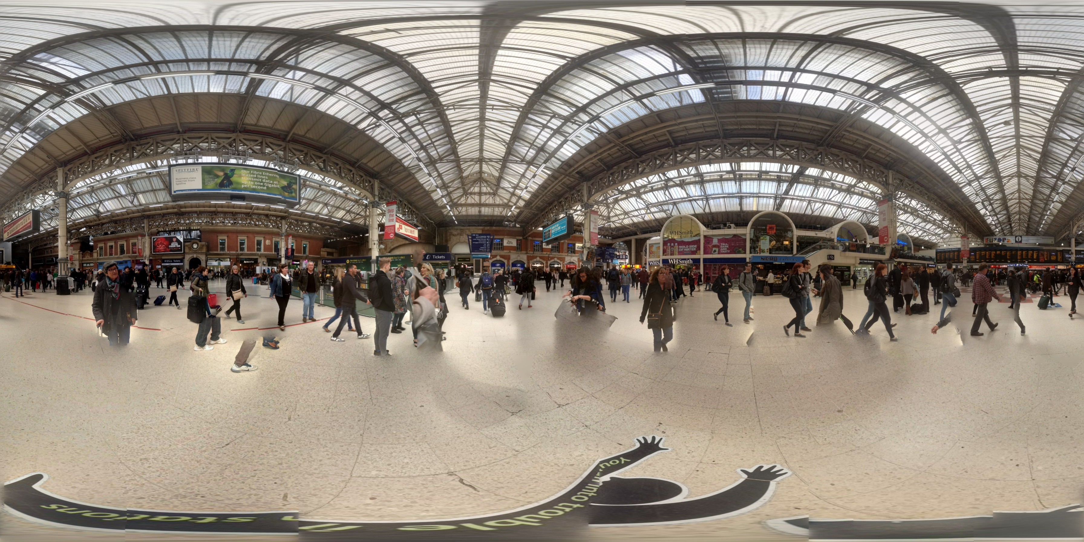 A 360° sphere view of London Victoria station concourse. Google Photo sphere.